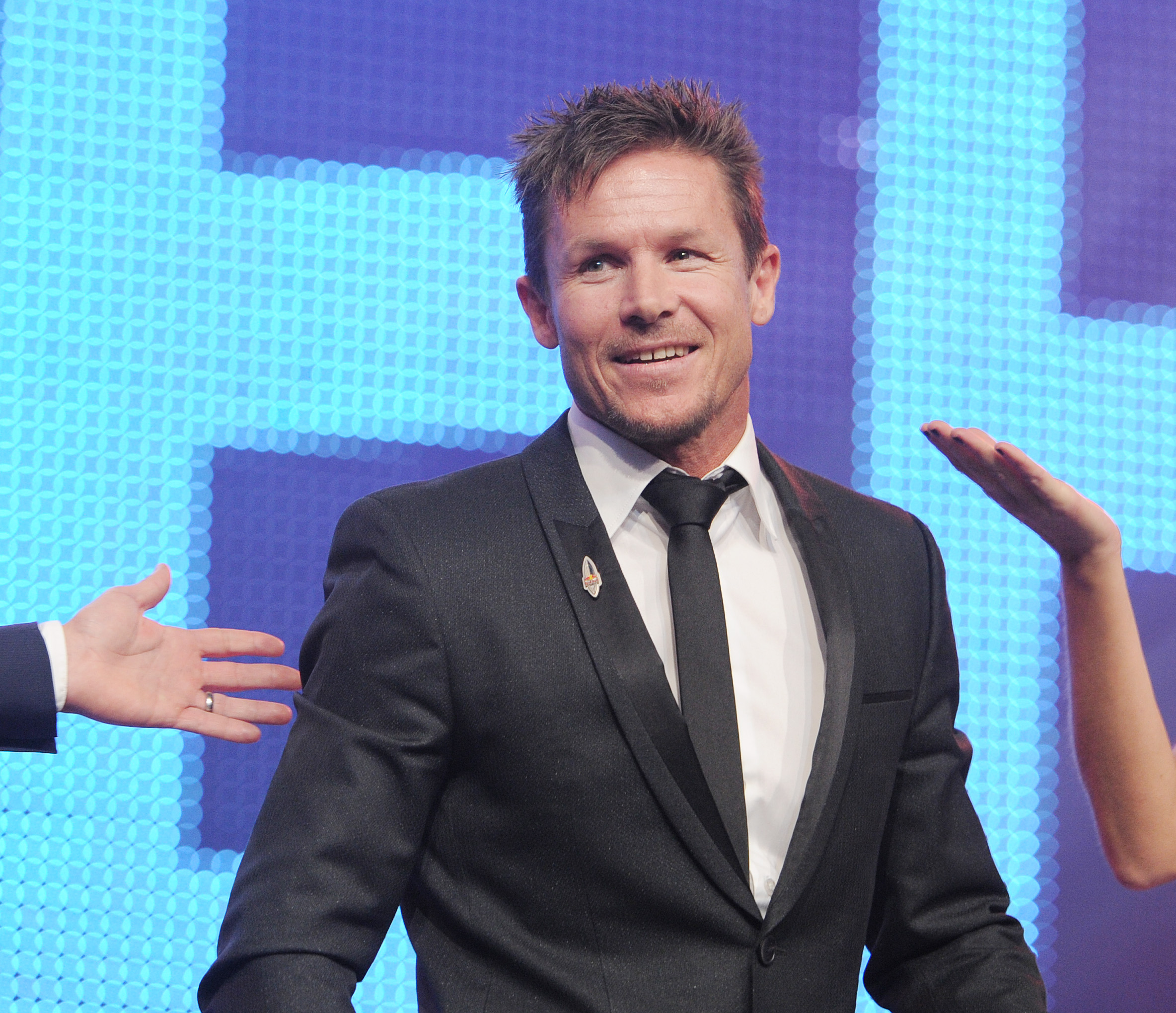 Davos, 03.10.2014. Sport, 12. Internationale Sportnacht Davos 2014. Strathosphaeren-Abspringer Felix Baumgartner.. Copyright by: foto-net / Kurt Schorrer